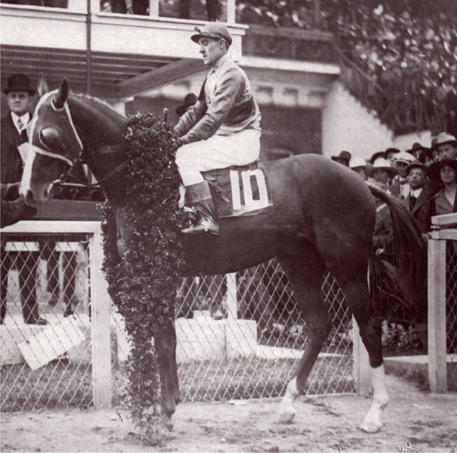 1917 Kentucky Derby press photo, picturing that year's winner- Omar Khayyam.